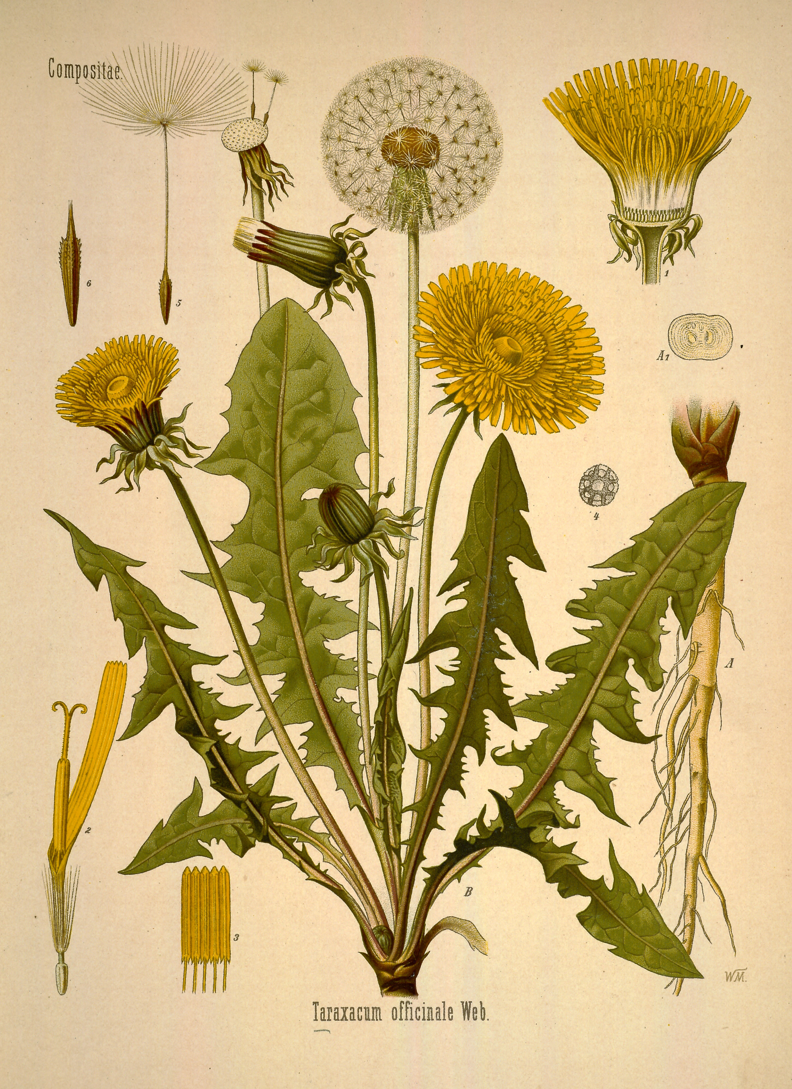 Untouched scan.